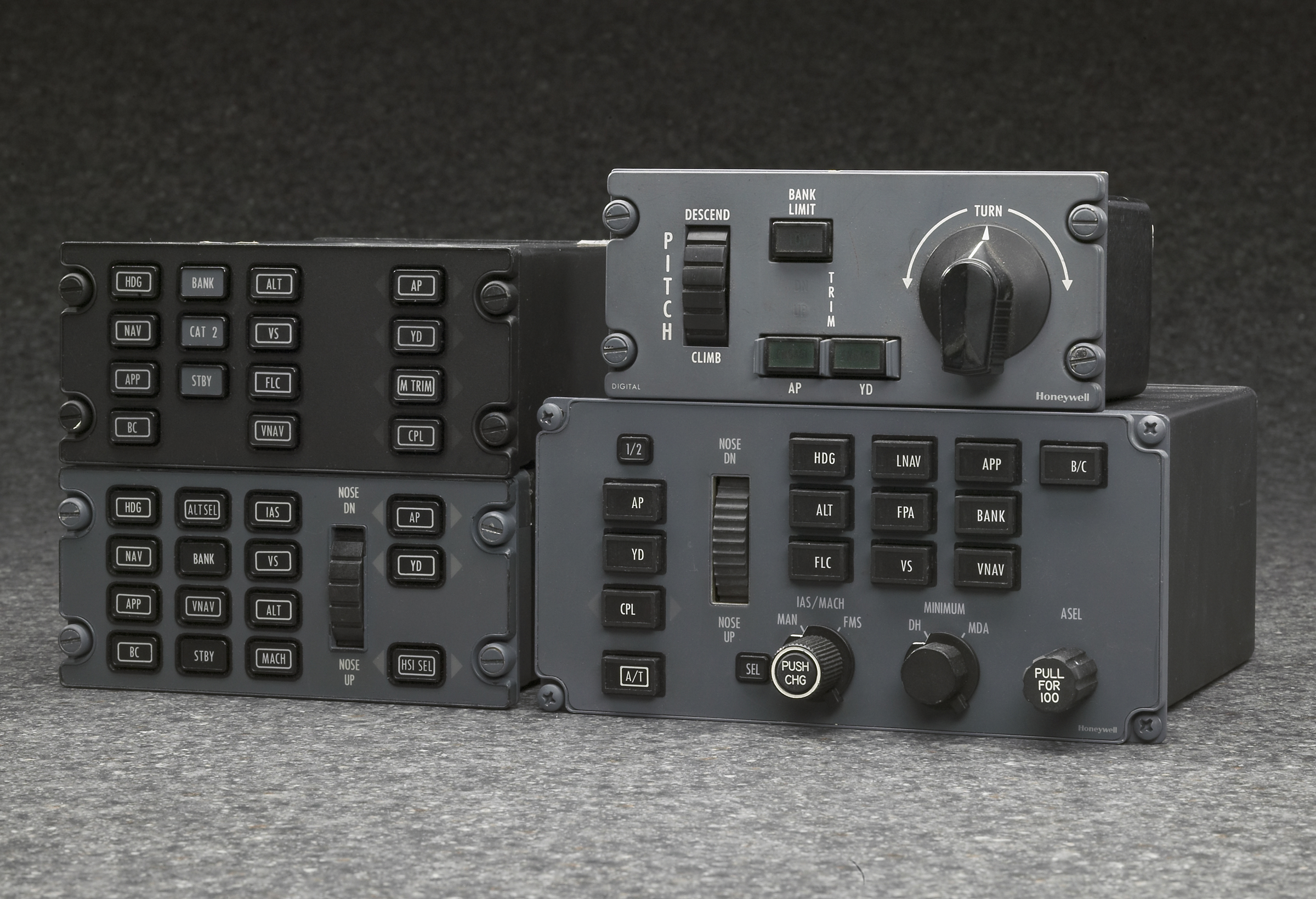 A Honeywell Autopilot System